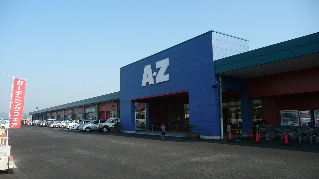 A-Z Hayato (Kirishima City, Kagoshima, Japan)